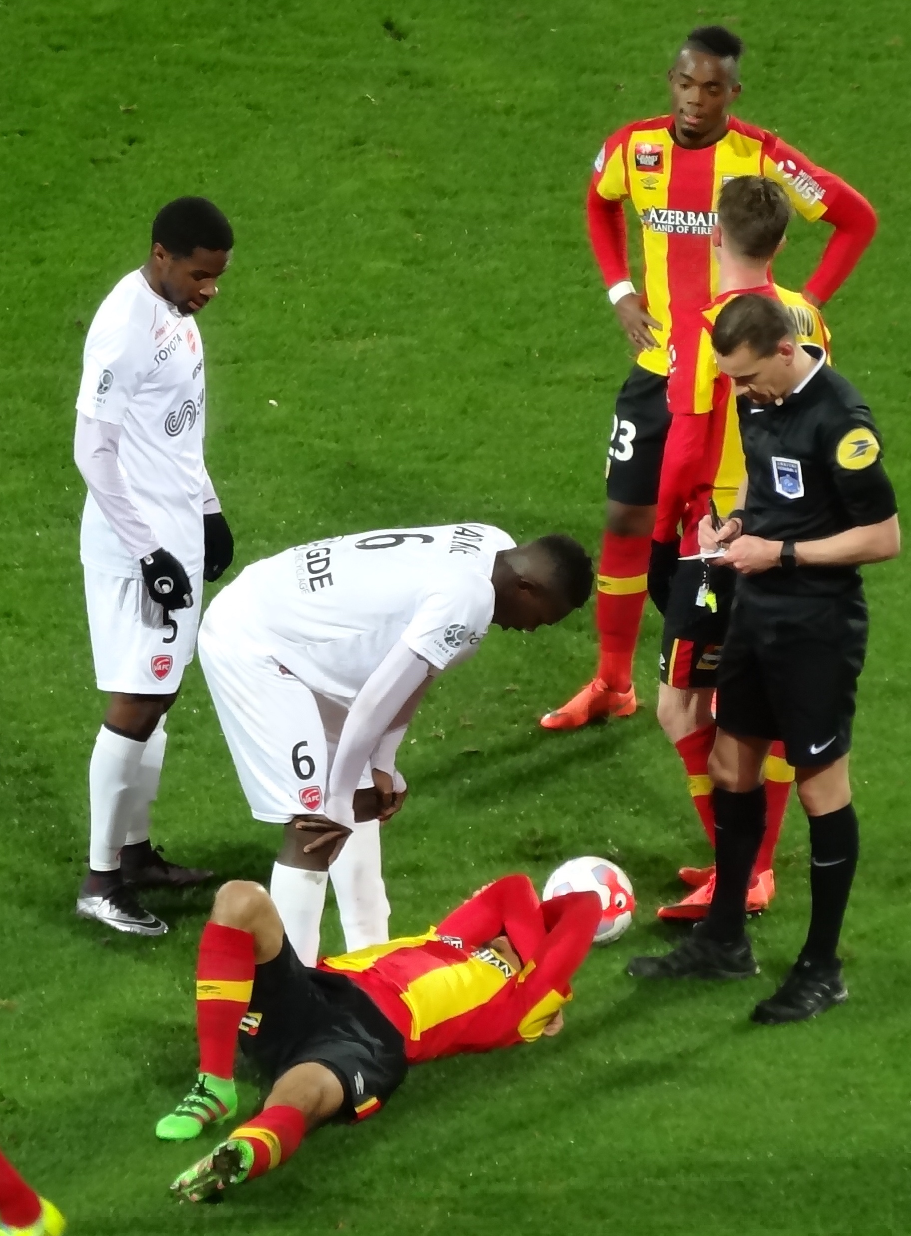 Adrien Tameze & Abdoul Aziz Kaboré (Valenciennes), vs Wylan Cyprien & Benjamin Bourigeaud (Lens)